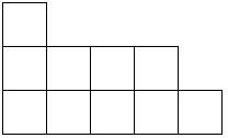 Young tableau